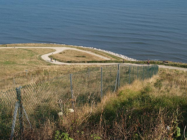 Site of Holbeck Hall landslide.Beyond the fence is the area affected by the landslide, which attracted national attention in 1993 when the Holbeck Hall Hotel was destroyed. Stabilisation work has been carried out including grading and drainage improvements and granite boulders provide a rock-armour around the toe of the slide to protect properties on the cliff-top.